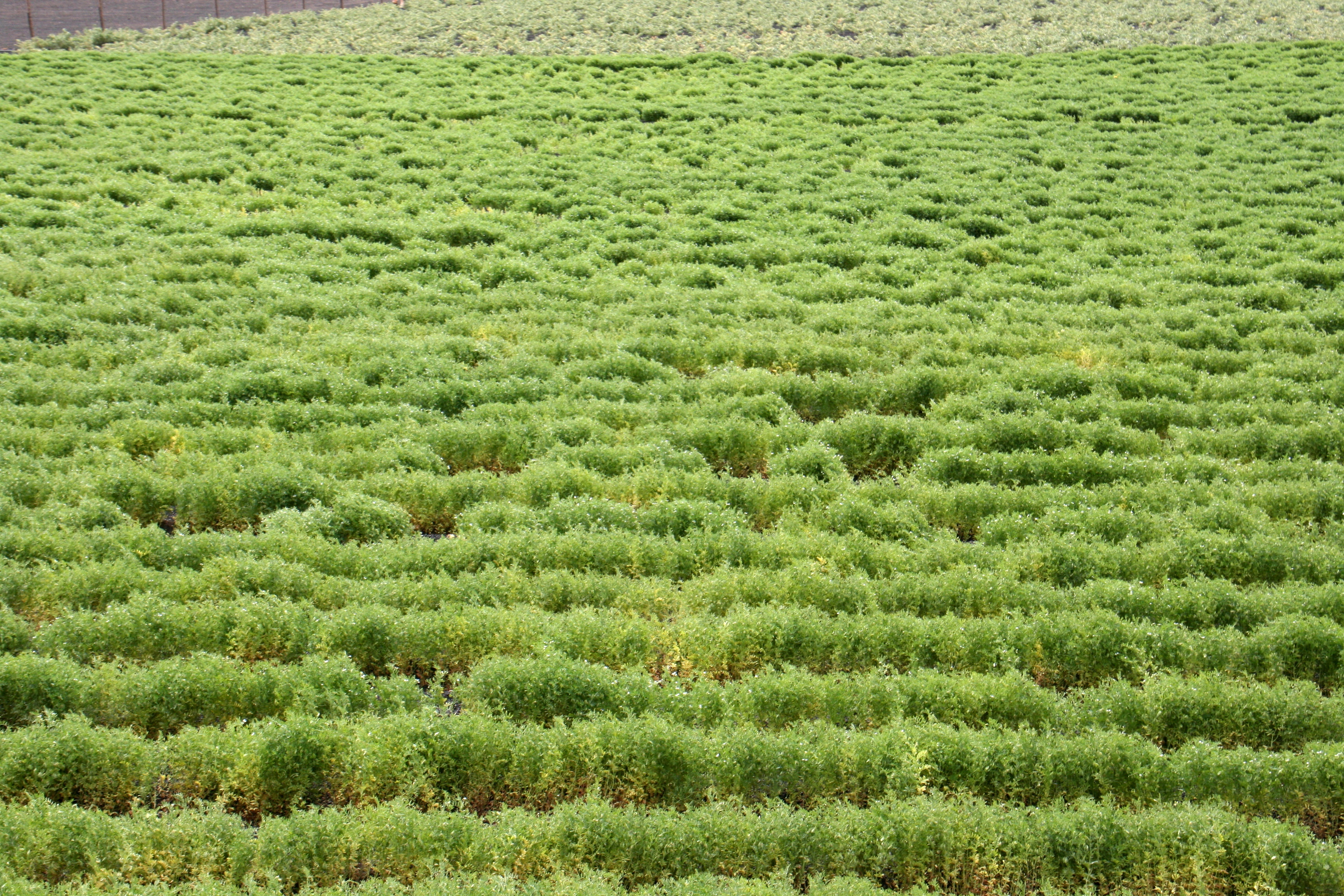 Calle Avenido del Rubicón (LZ-702) in Femés, Yaiza, Lanzarote, Canary Islands